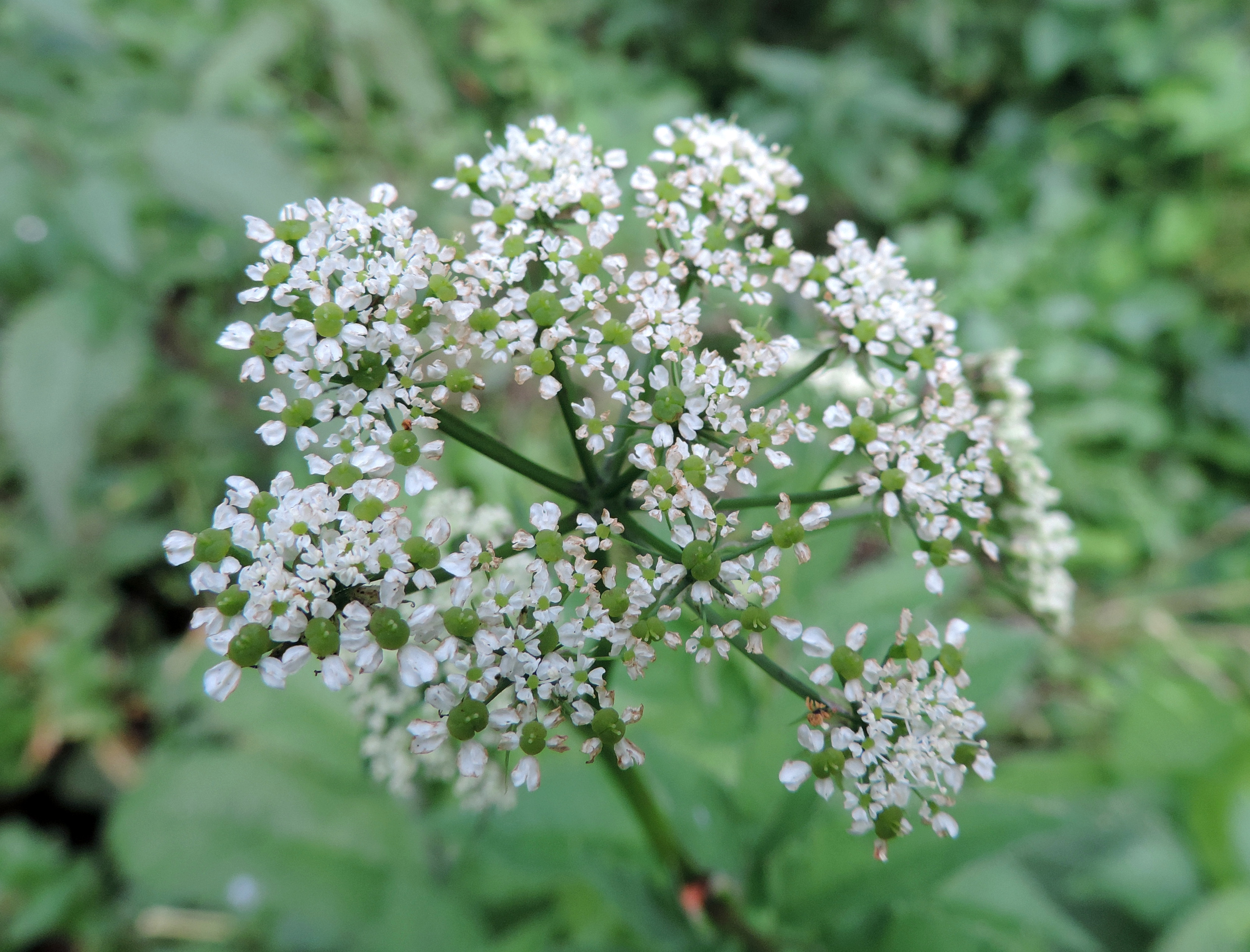 Chaerophyllum aromaticum from vicinity of Wołów (SW Poland). Flowers